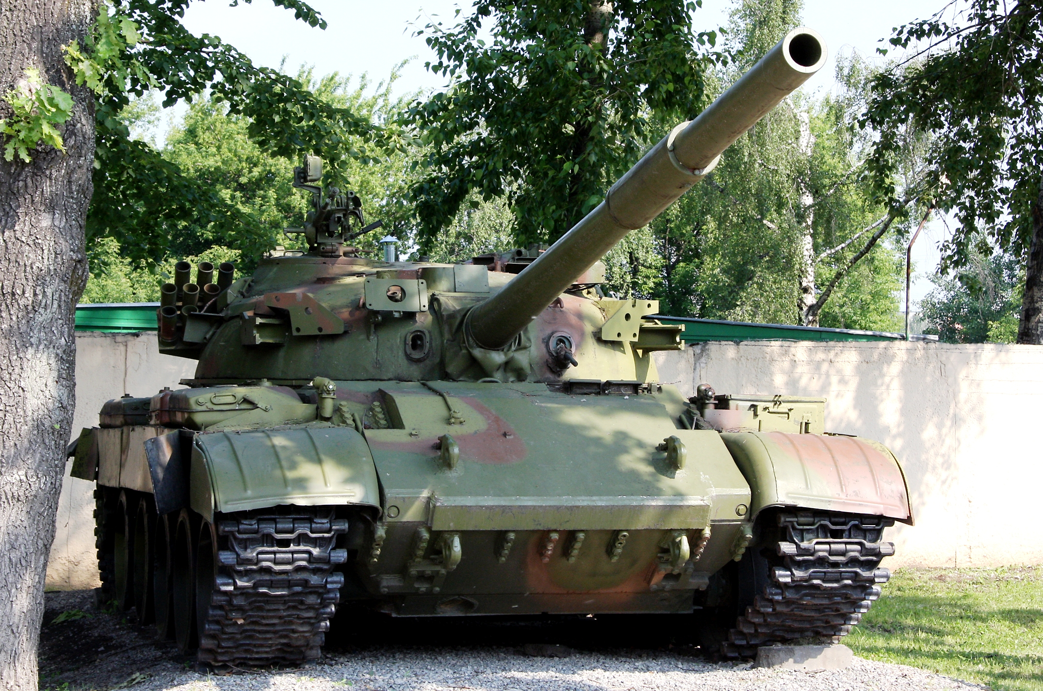 T-62D at the Moscow Suvorov Military School in Babushkinsky.